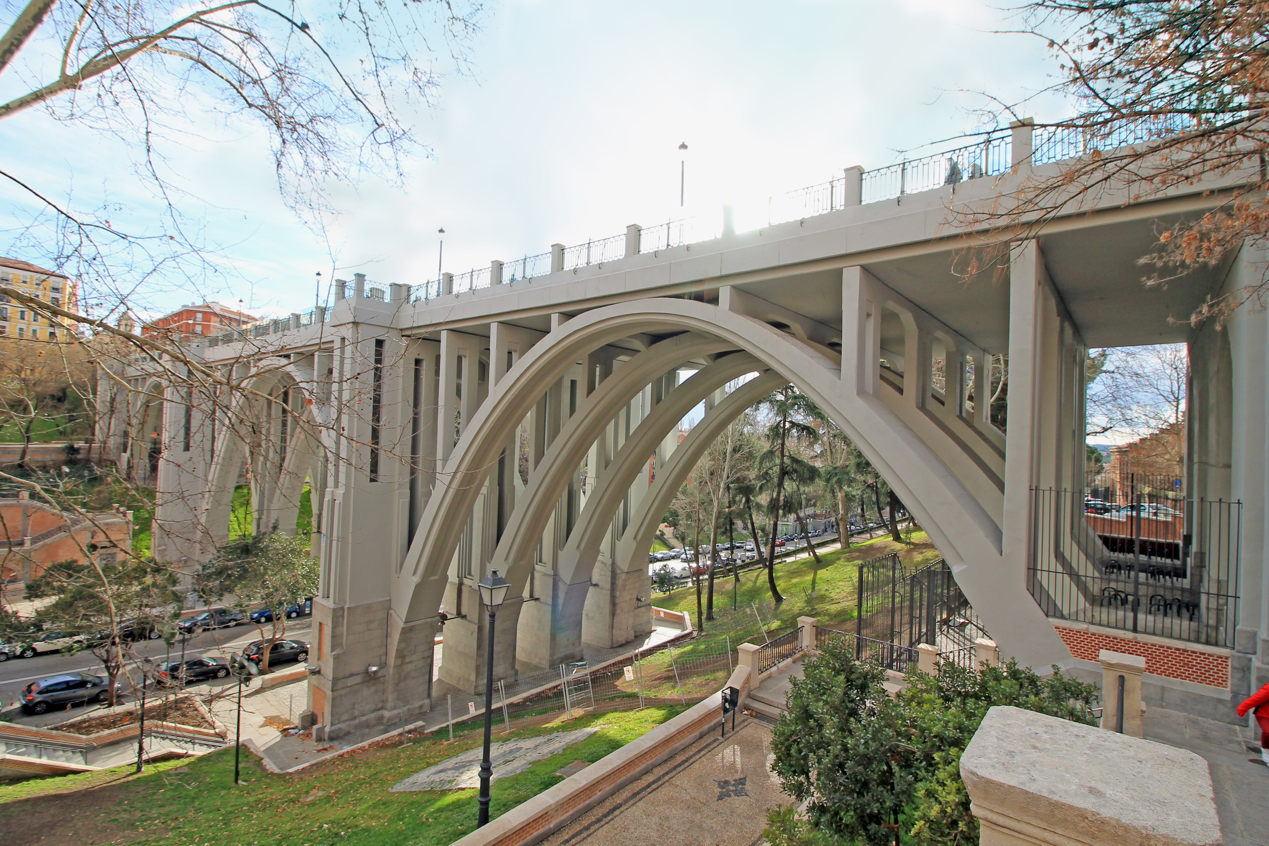 East side of Viaducto de Segovia (a viaduct) in Madrid (Spain).